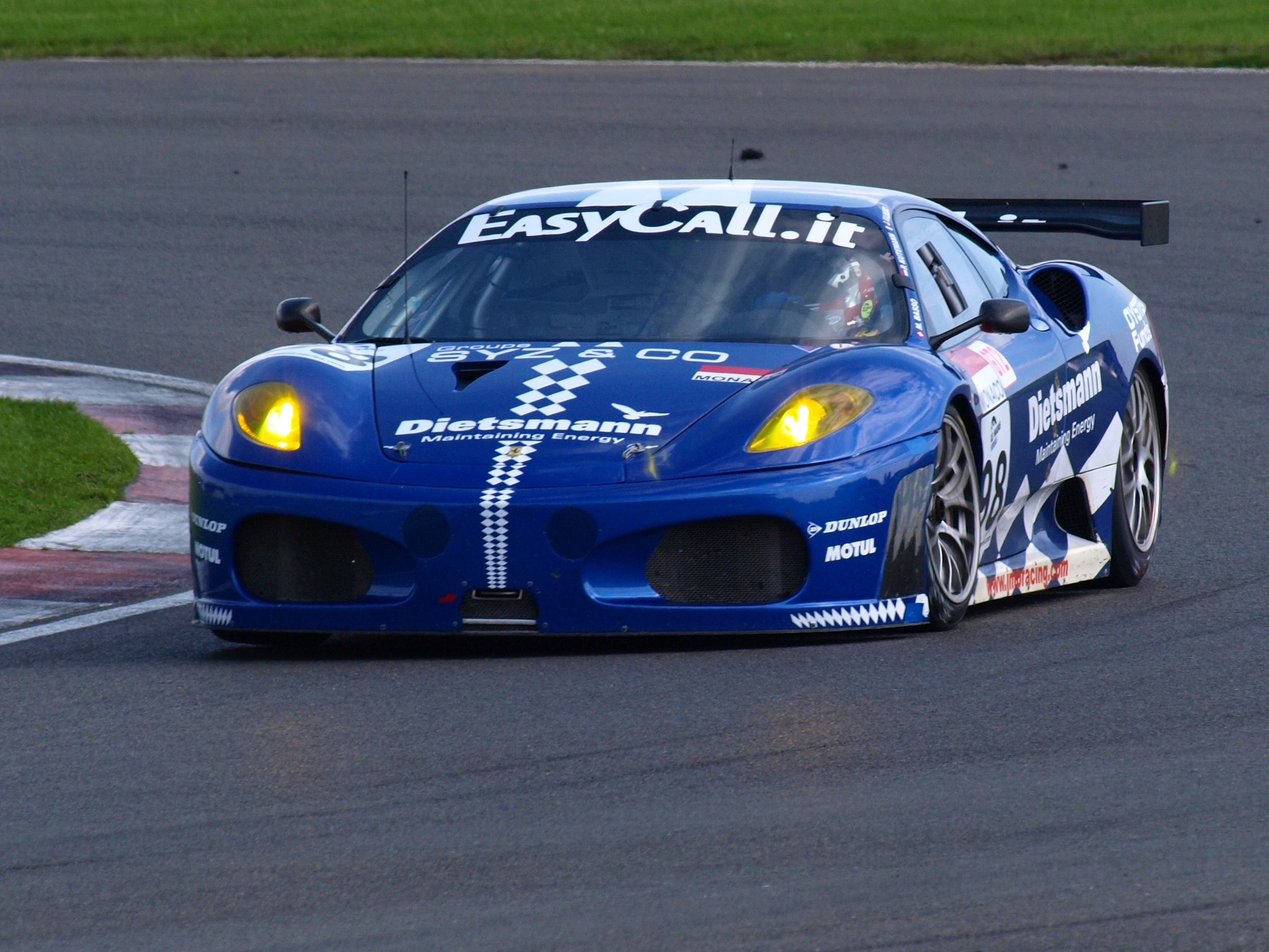 JMB Racing's Ferrari F430 GT2 at the 2008 1000km of Silverstone